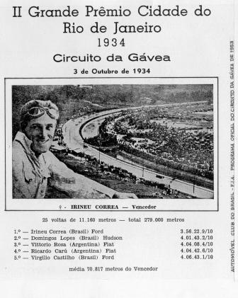 A pamphlet on the II Grande Prêmio Cidade do Rio de Janeiro (1934), depicting the winner Irineu Correa (Brazil).